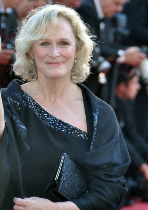 Glenn Close at the Cannes film festival.